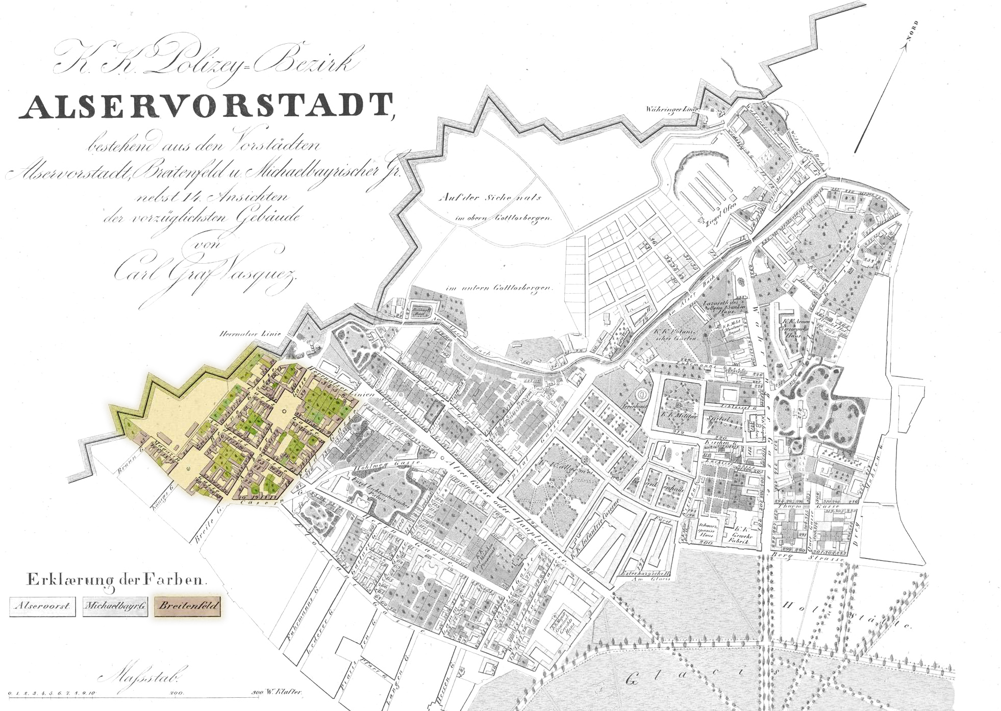 Map of Vienna / Breitenfeld, approx. 1830